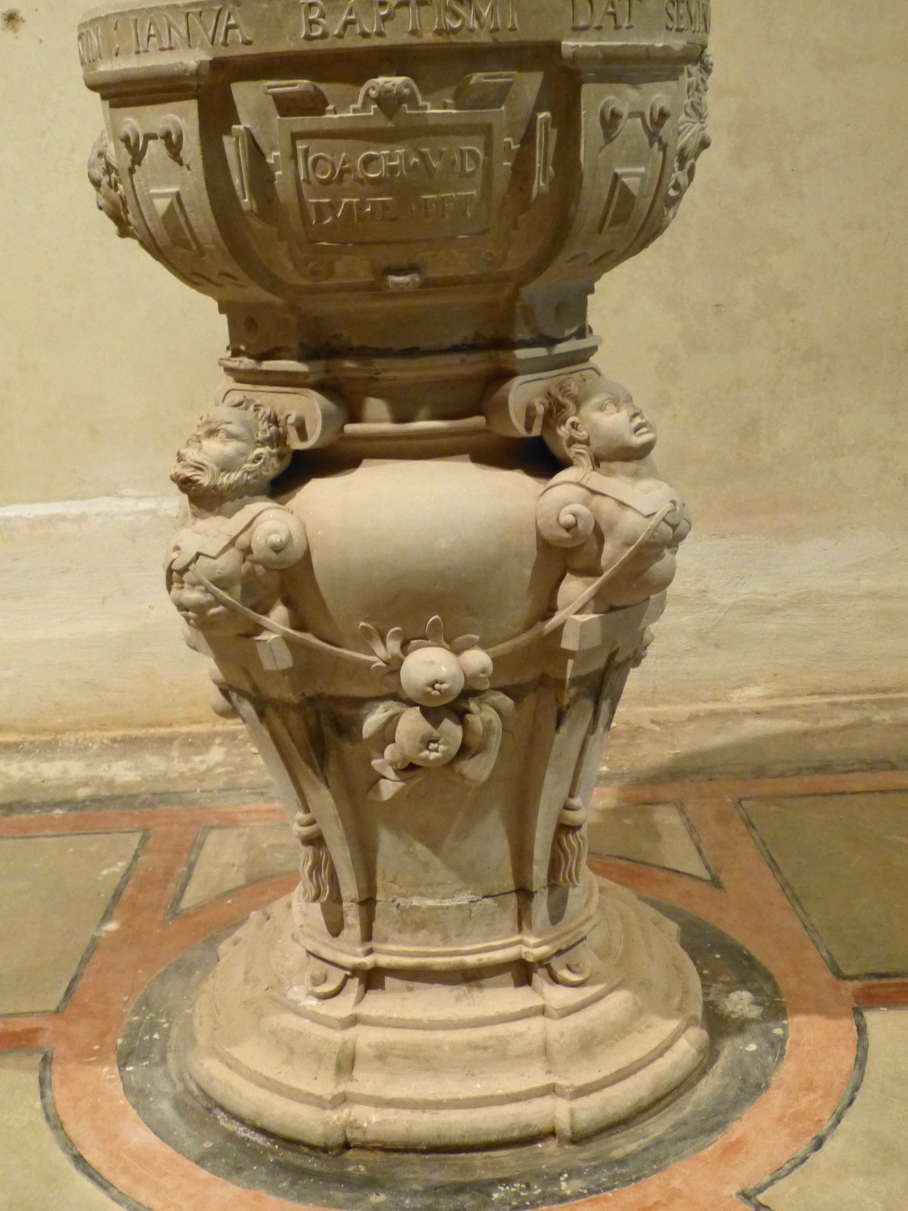 Dobbertin ( Mecklenburg ). Monastery church: Baptismal font ( 1586 ) by Philipp Brandin.